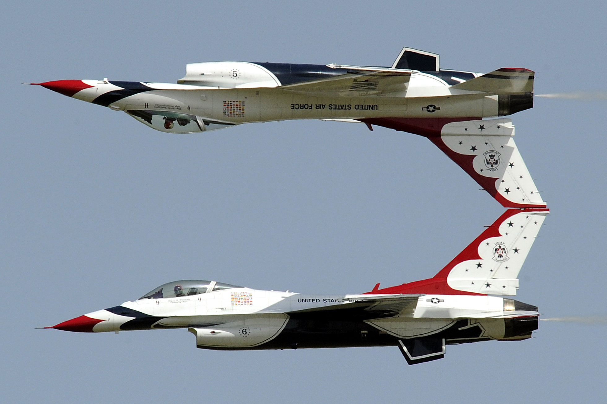 The USAF Thunderbirds perform the calypso pass at Kogalniceanu airport, near Constanta, east of Bucharest, Romania on June 7, 2011.